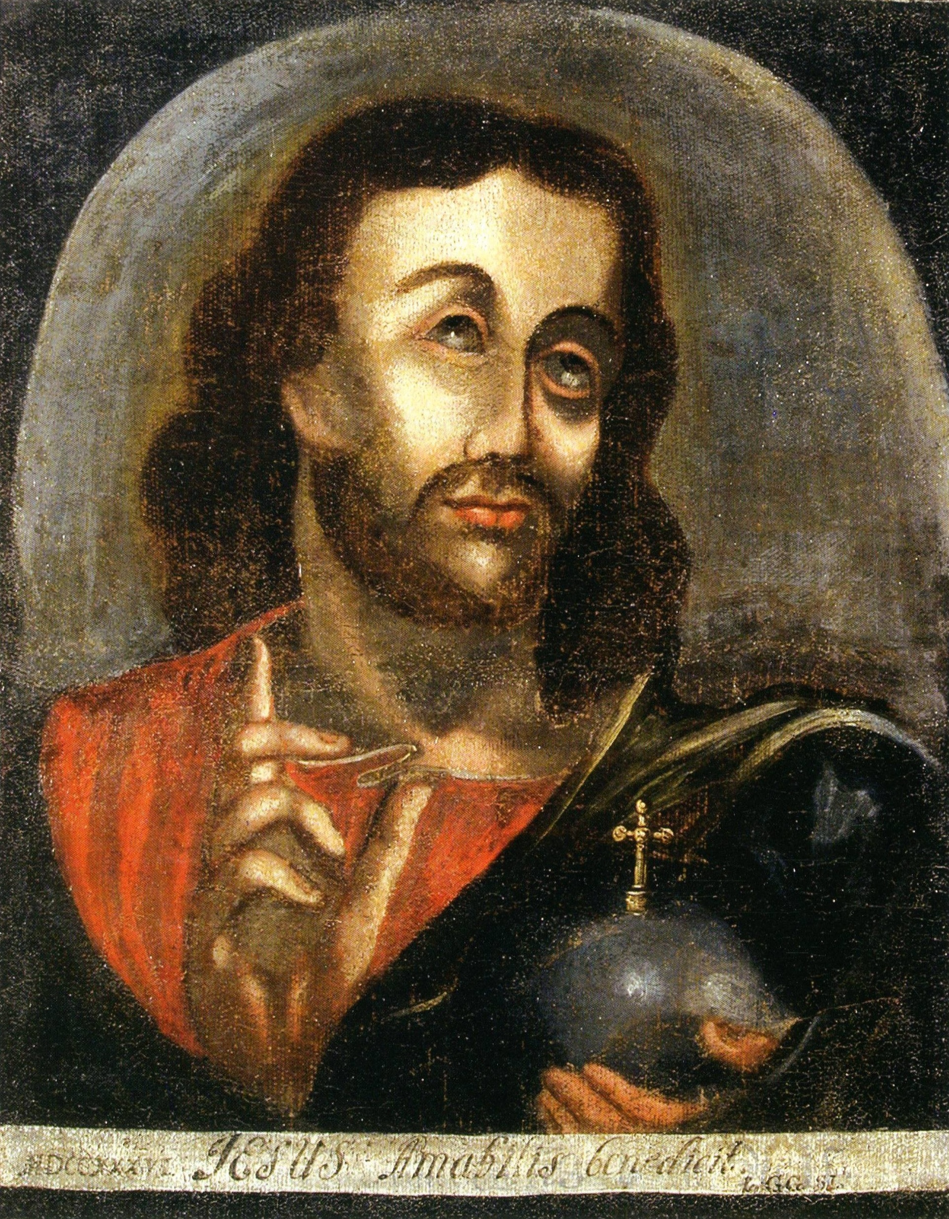 JESUS CHRIST. 1736. Canvas, oil. St. Yuri's Church, Budcha, Gantsavichy district, Brest region.